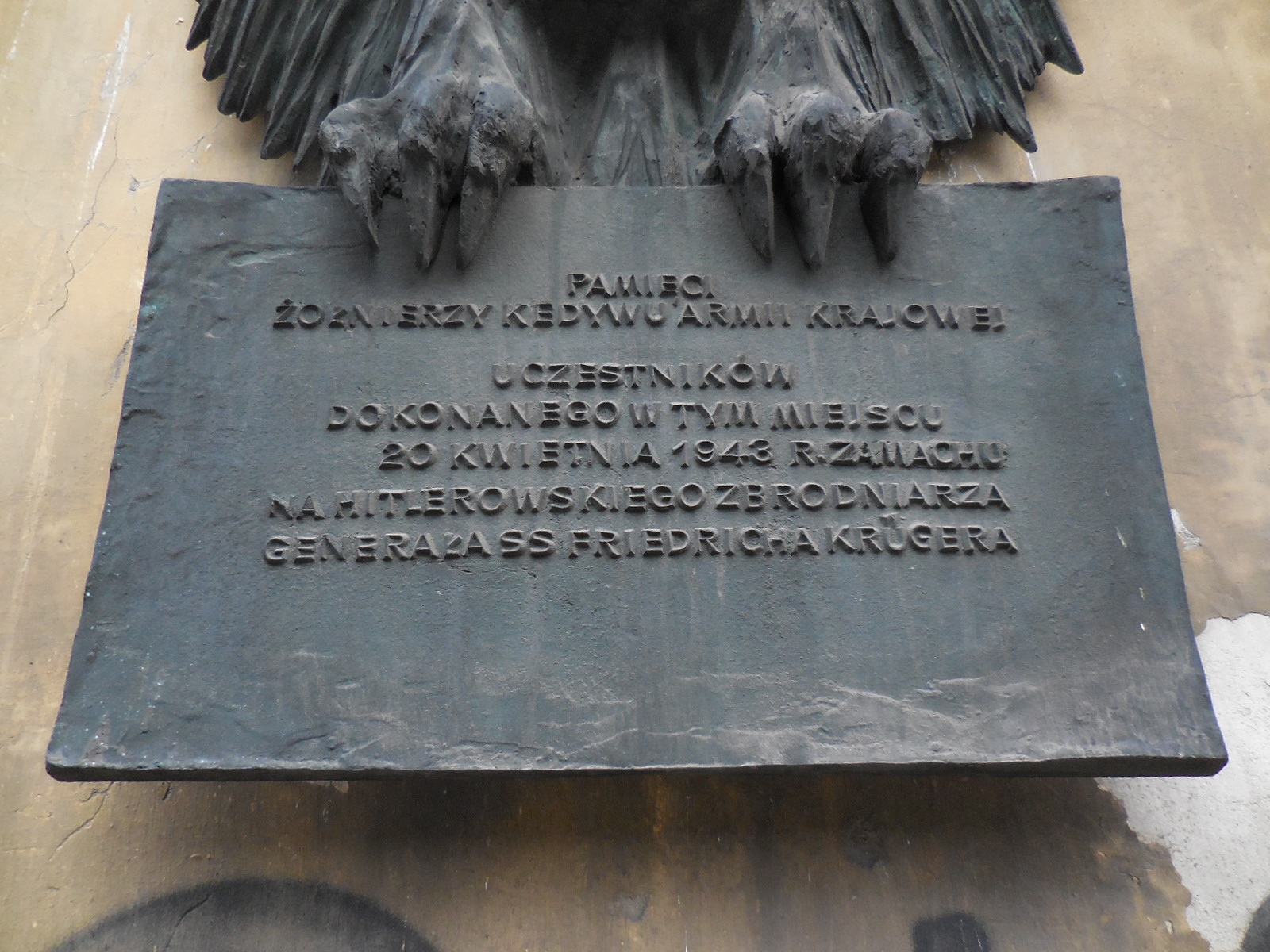 Commemorative plaque of the attack on Friedrich-Wilhelm Krüger by Armia Krajowa (20 April 1943), Kraków, Poland